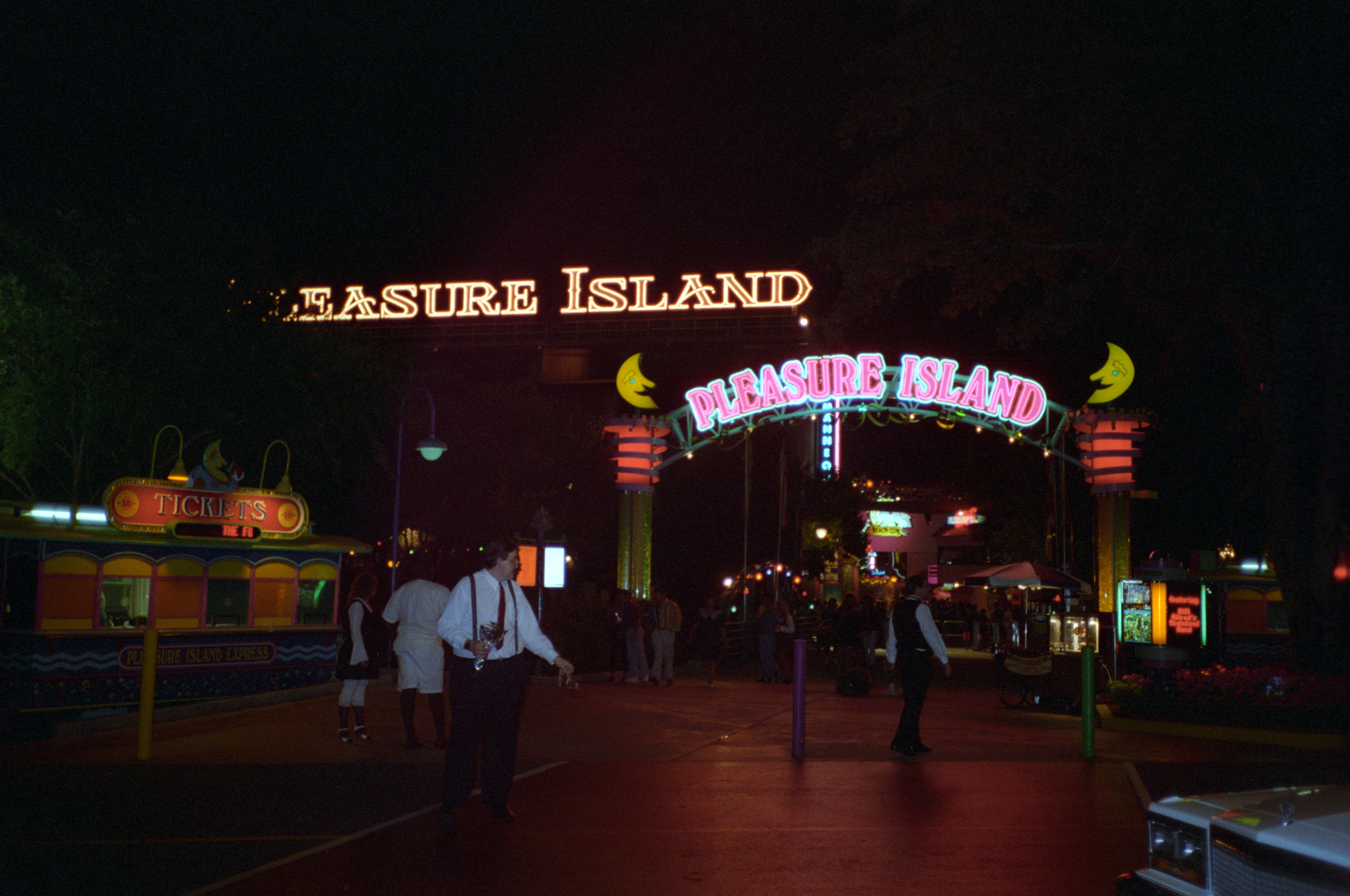 Pleasure Island at Downtown Disney in May 1995. Taken by Joe Shlabotnik